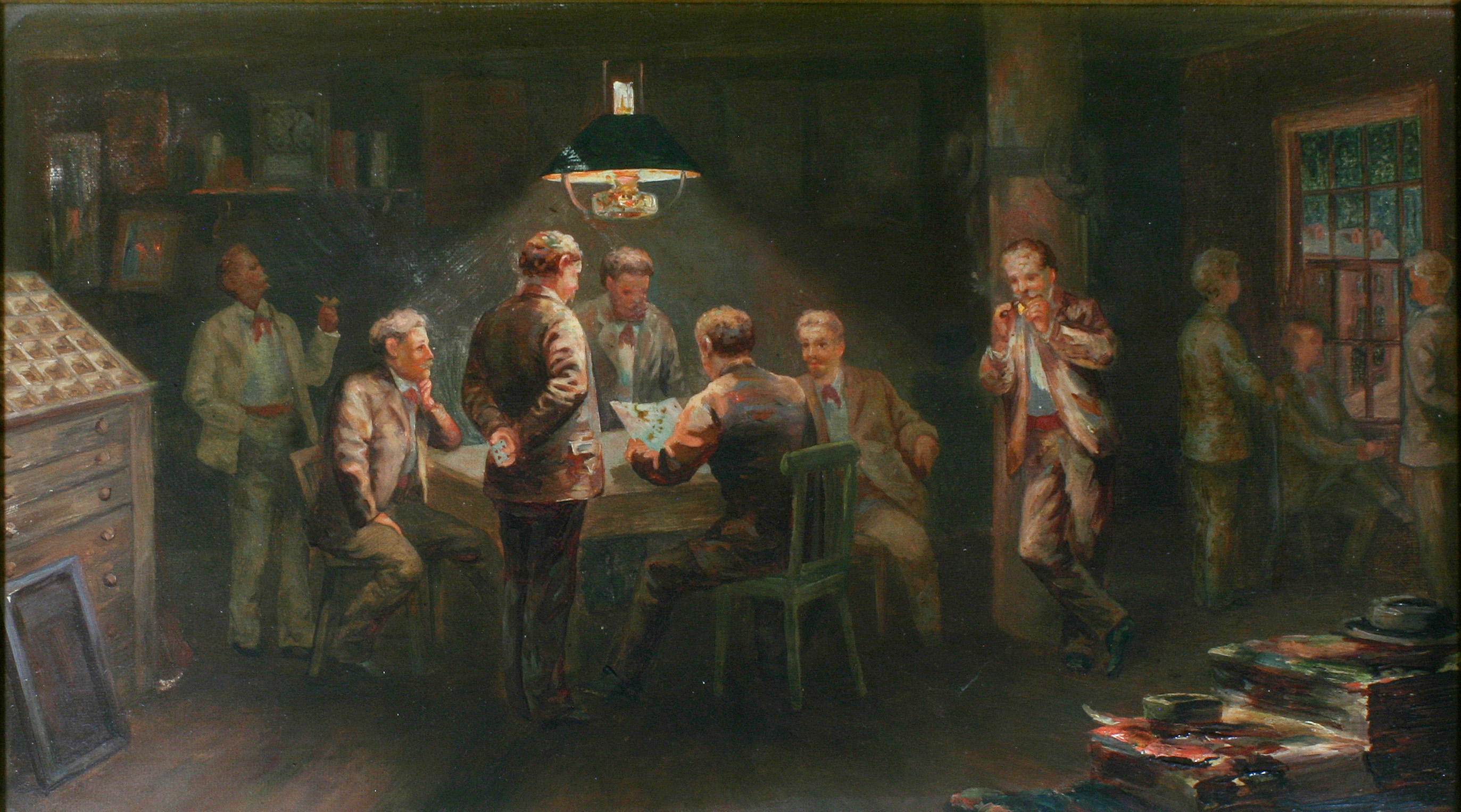 A fussy client approves — or maybe rejects — yet another press proof of his printing job. It's gotten into the wee hours; the clock reads 12:28. Meanwhile the employees look bored. One holds a deck of cards behind his back, another smokes his pipe, another lights a cigar, while others look out the window. There will be a long wait if the job goes back to press for another round of adjustments. The print shop looks like the ones that existed in every town at the time, with its typographic job case on the left and piles of inky paper on the lower right. The scene evokes the late-night press checks that still go nowadays everywhere that there is a printing press and a persnickety client. Oil on canvas, 8" x 14".